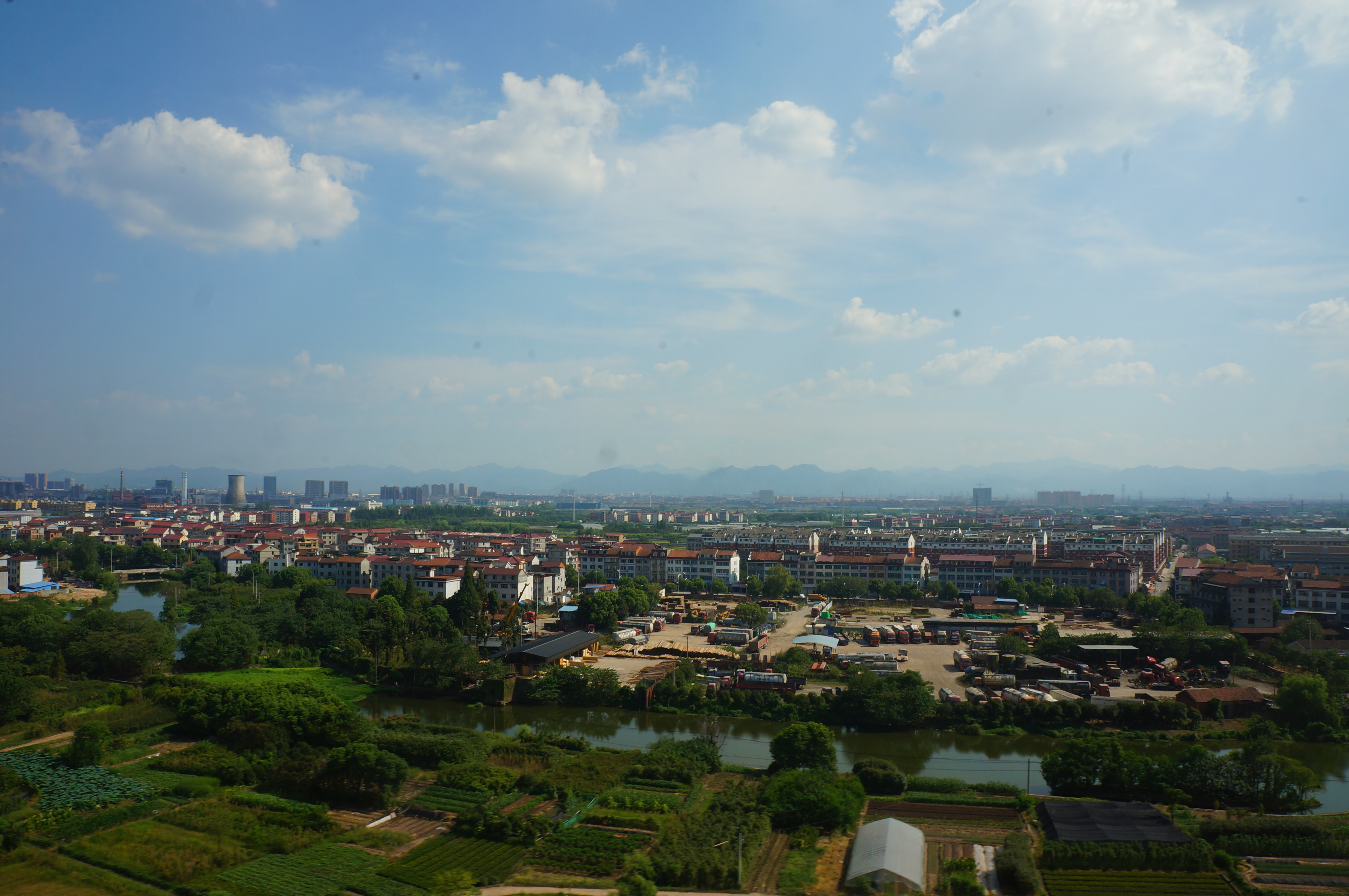 201608 Qianxi